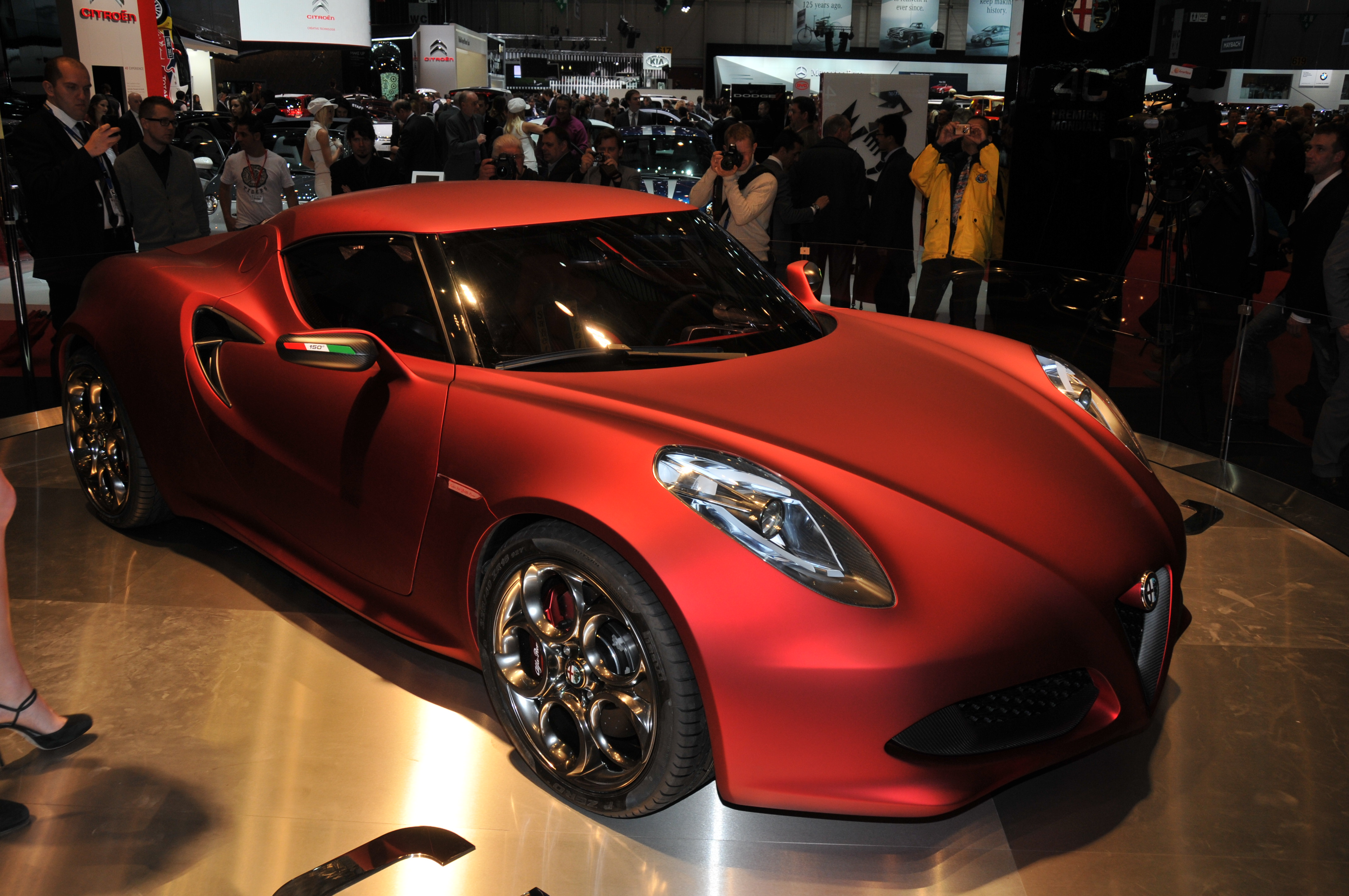 The Alfa Romeo 4C Concept was introduced at the 2011 Geneva Motor Show